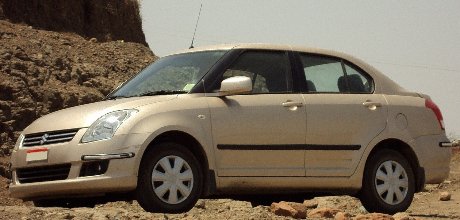 2008 Maruti Suzuki Swift Dzire VXi.